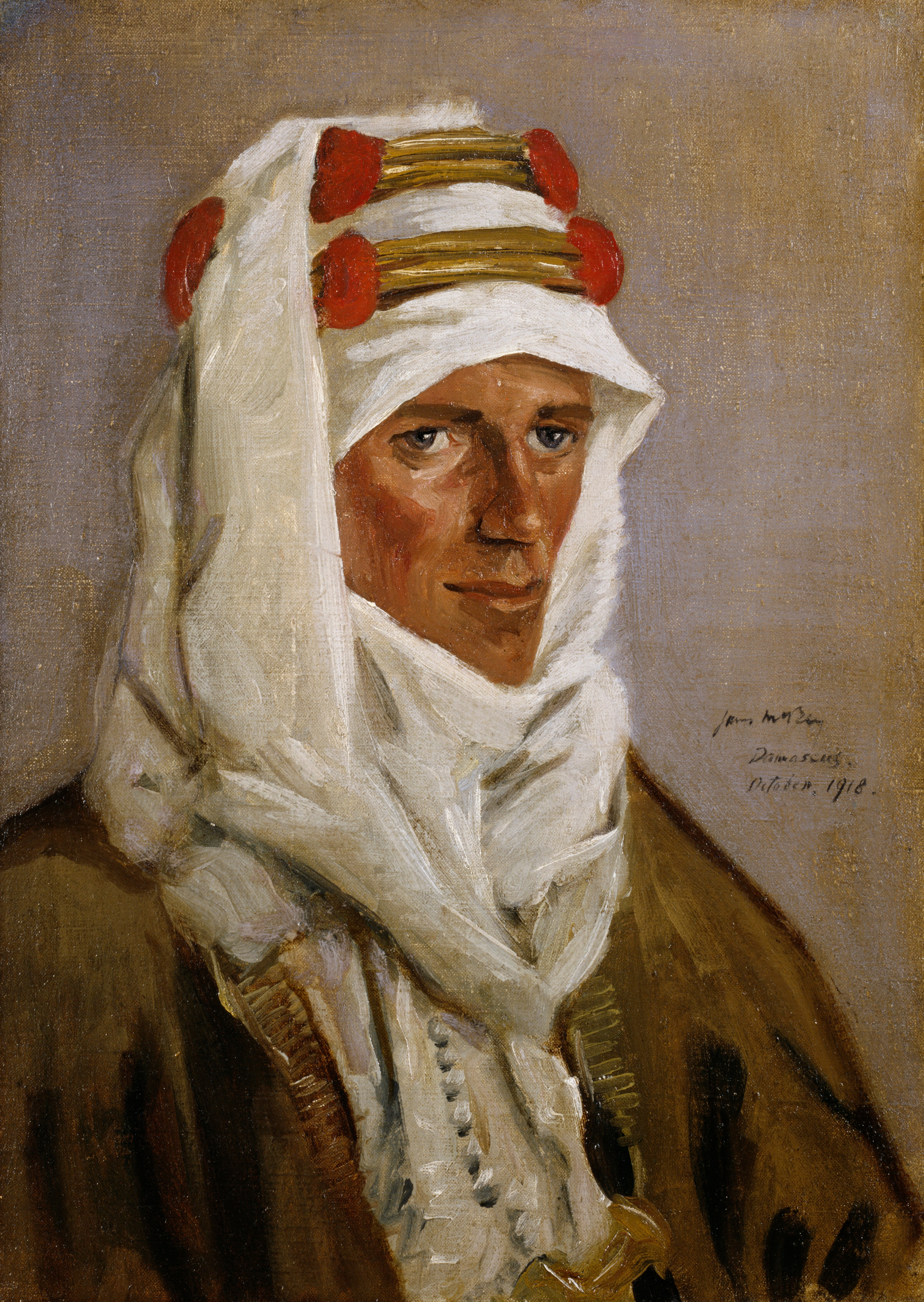 Lieutenant-colonel T E Lawrence, Cb, Dso, 1918 image: A head and shoulders portrait of Lawrence in Arab headdress.